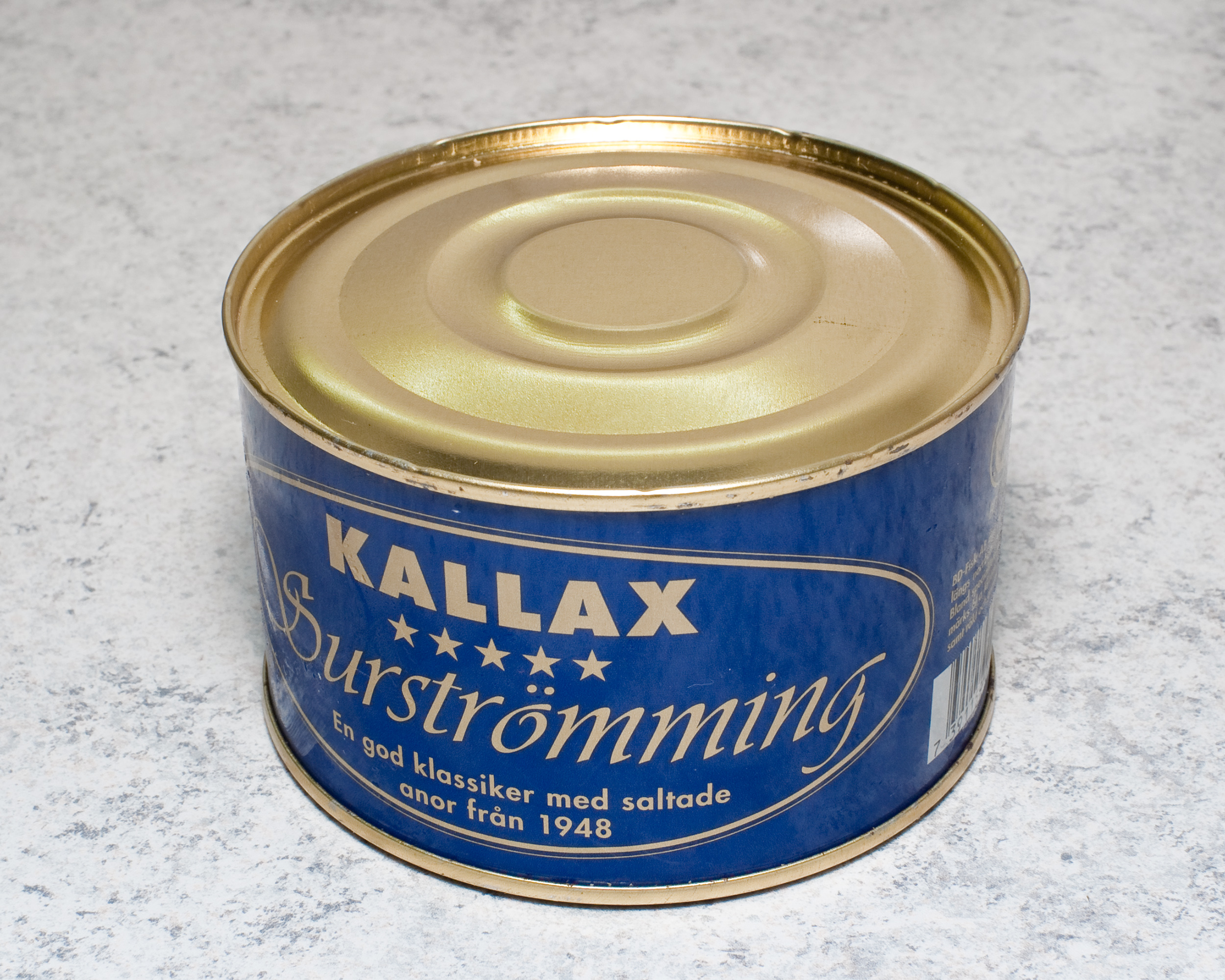 Can of surströmming